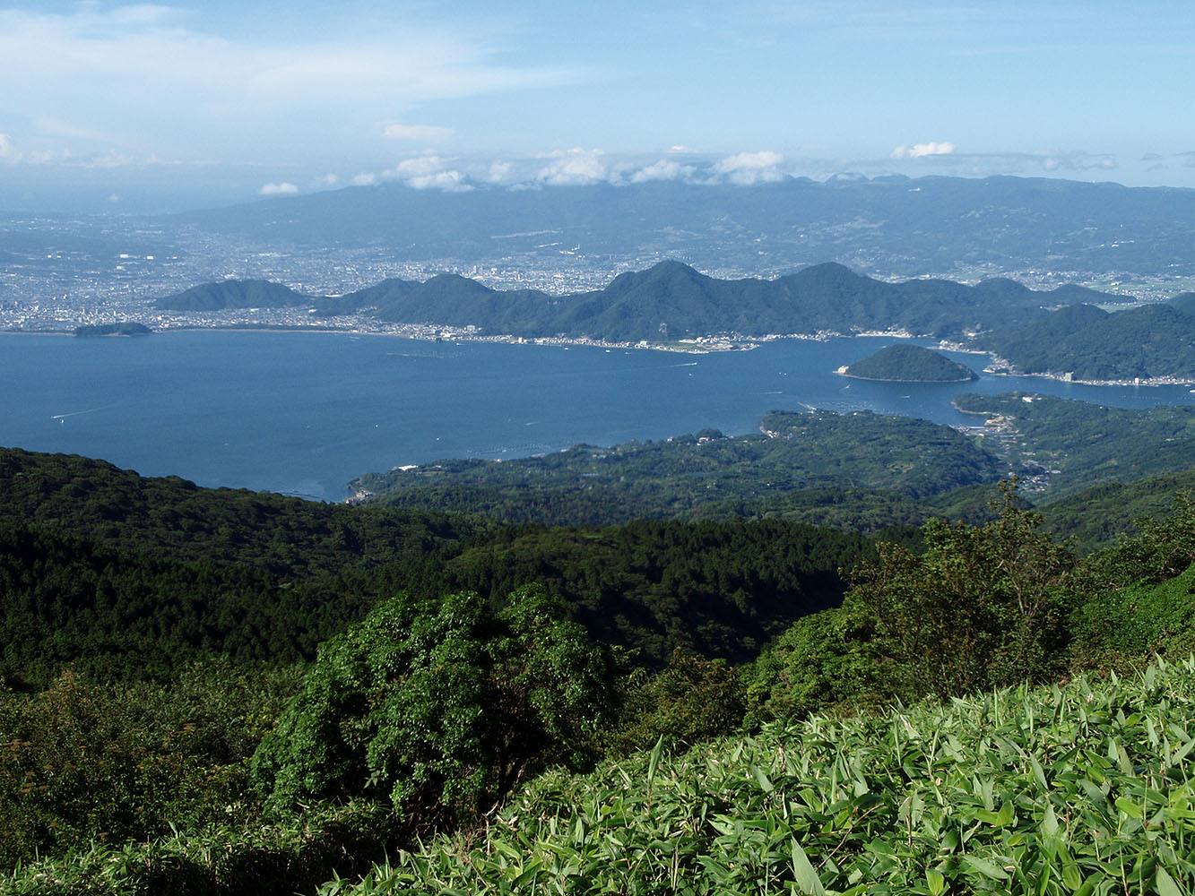 Numazu Alps as seen from the SSW. Shot at the top of Mount Kinkan in Numazu, Shizuoka Prefecture, Japan.